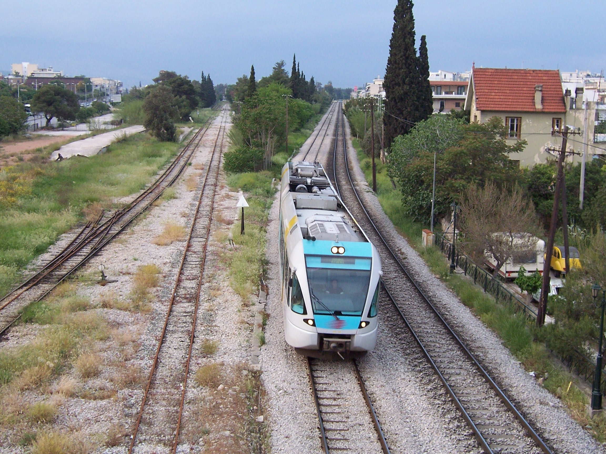 A Proastiakos train (Stadler Railbus) in Agioi Anargyroi coming from the airport to Athens